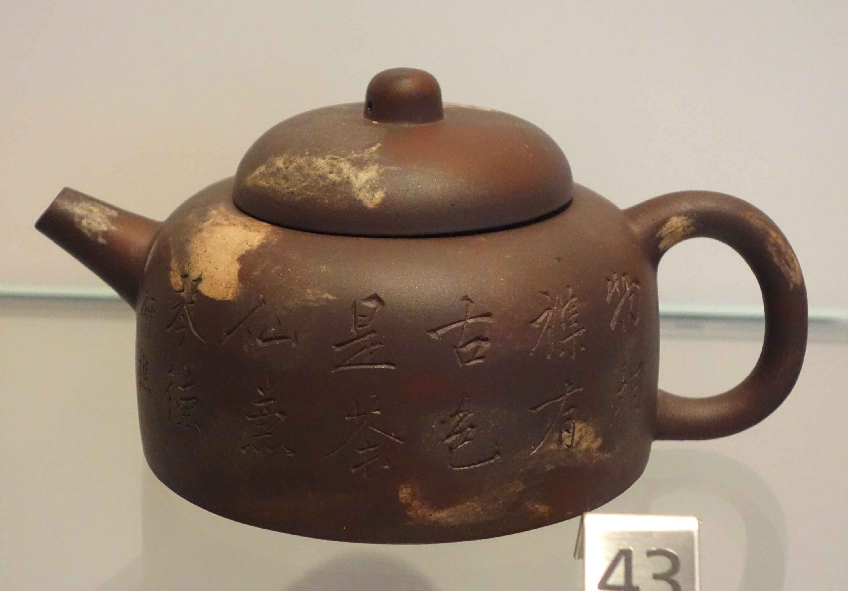 Exhibit in the Royal Ontario Museum, Toronto, Ontario, Canada. This work is old enough so that it is in the public domain.